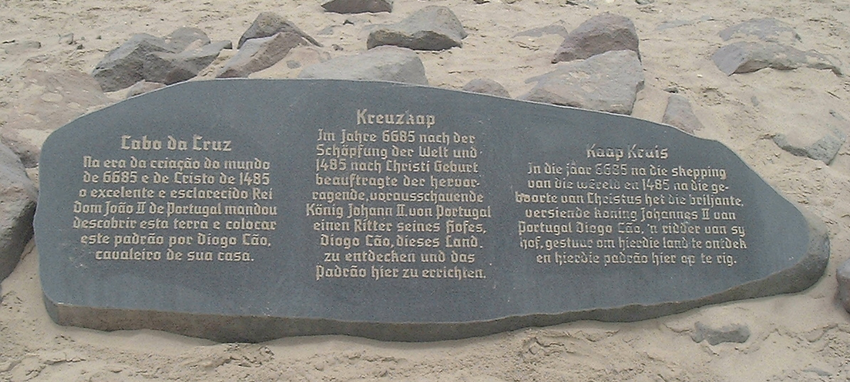 Cape Cross, Namibia: In the year 6685 since the creation of the world and the year 1485 of our Lord, the excellent and enlightened King Dom João II of Portugal ordered Diogo Cão, a knight of his court, to discover this land and to erect a padrão here.